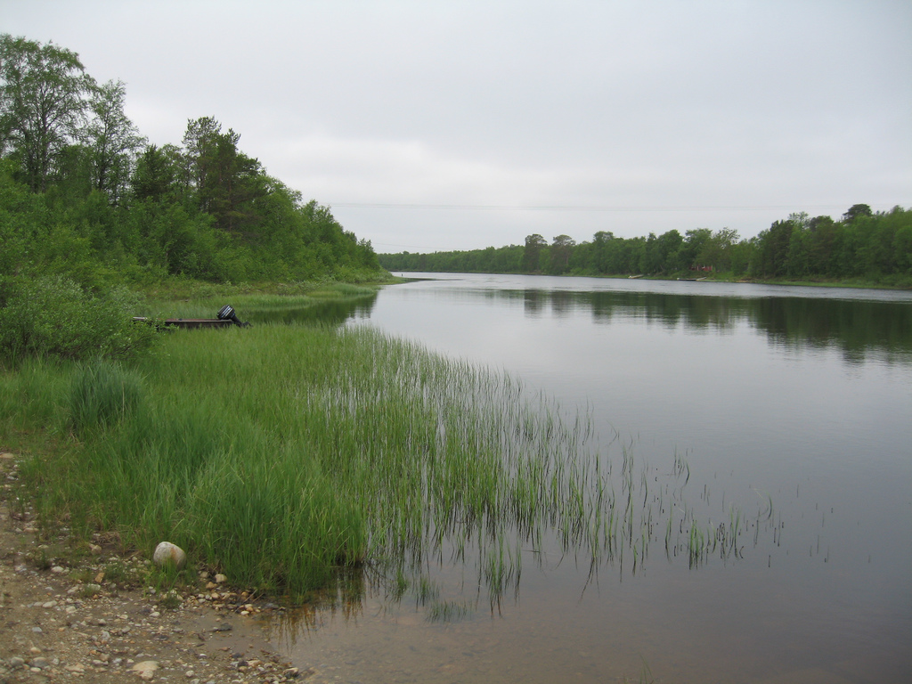 Kaamasjoki. Kaamanen, Inari, Lapland, Finland, Europe.